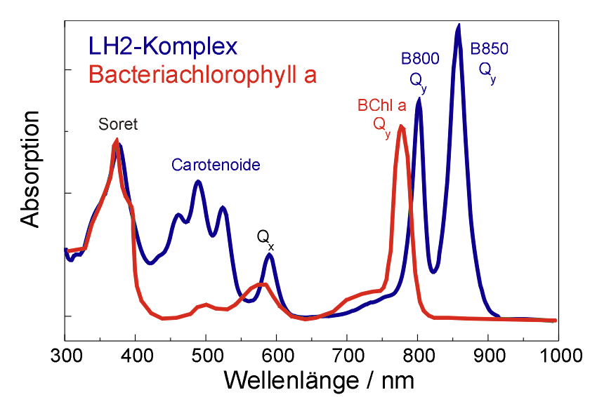 absorption spectra of bacteriochlorophyll a and LH2 antenna complex